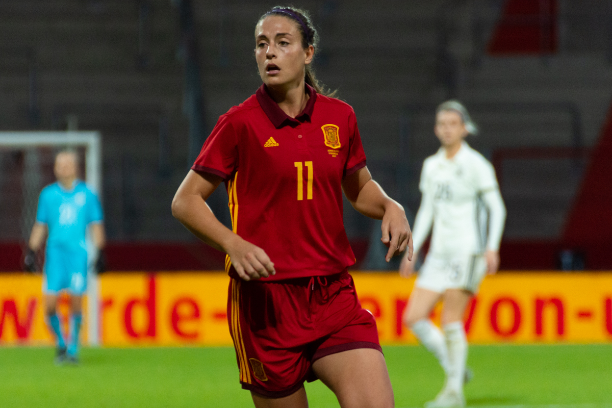 Alexia Putellas during a match vs Gemrany in November 2018